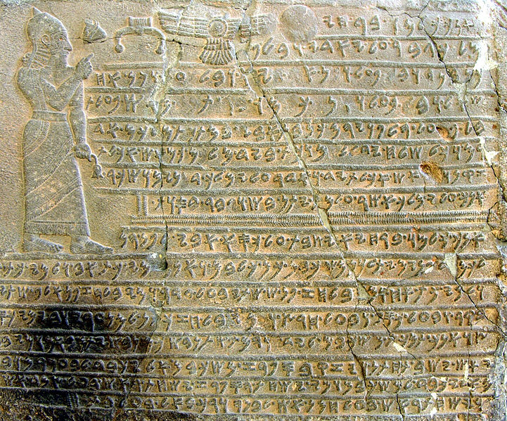 Phoenician text by King Kilamuwa. Relief from Samal (now Zincirli). Pergamonmuseum, Berlin